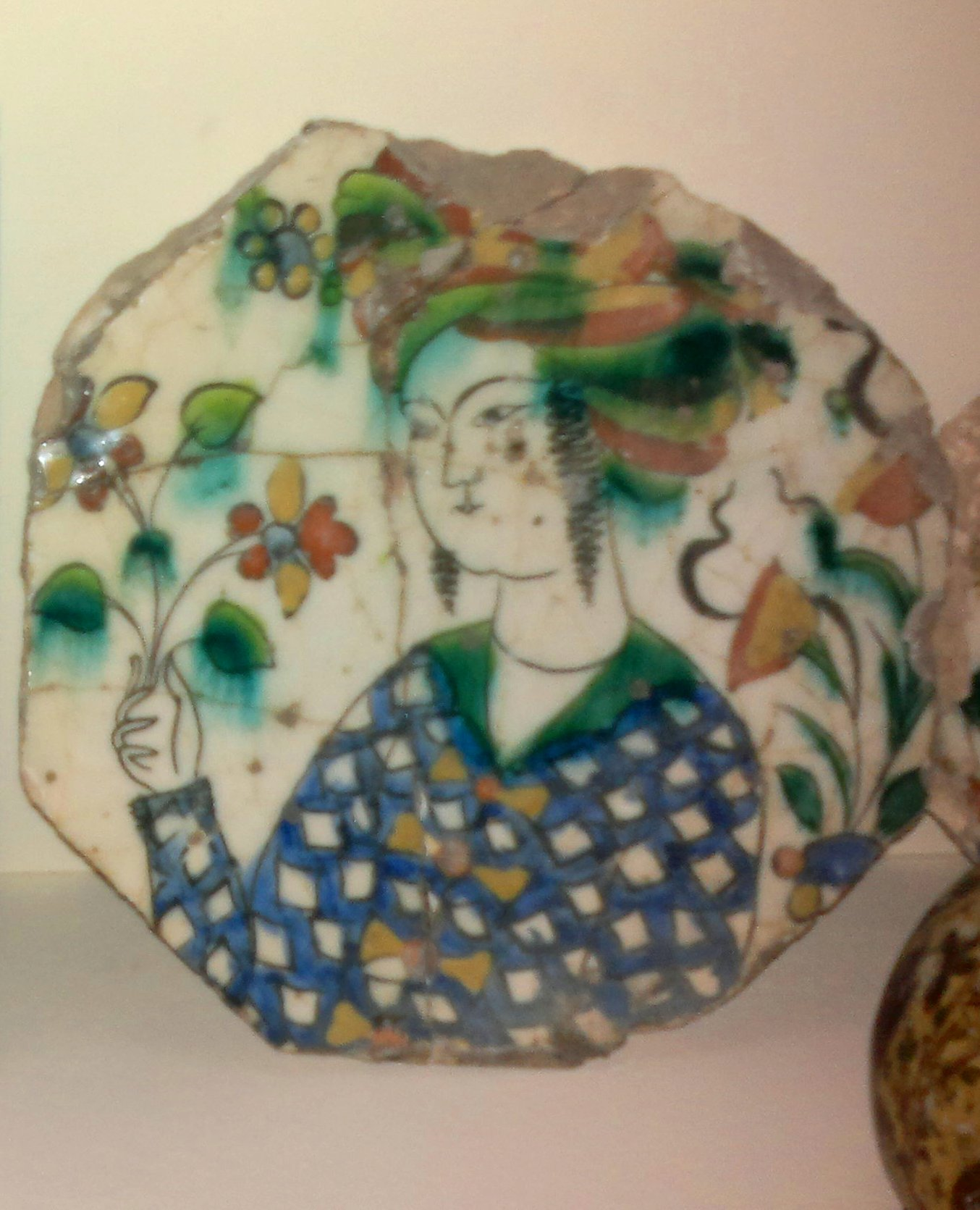 Tile fragment of the Sefevid's period in Museum of History of Azerbaijan.